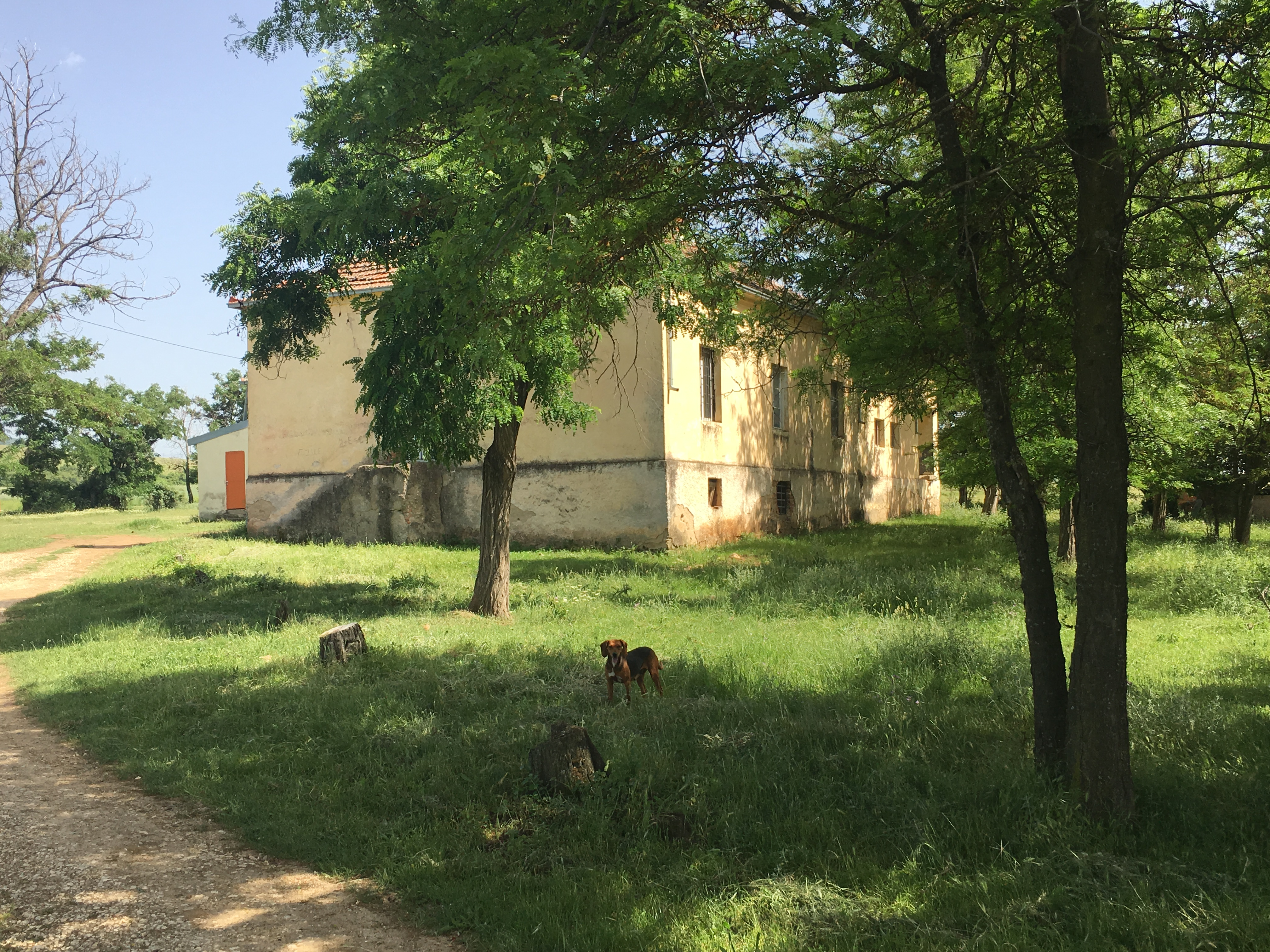 Primary school in the village of Musinci